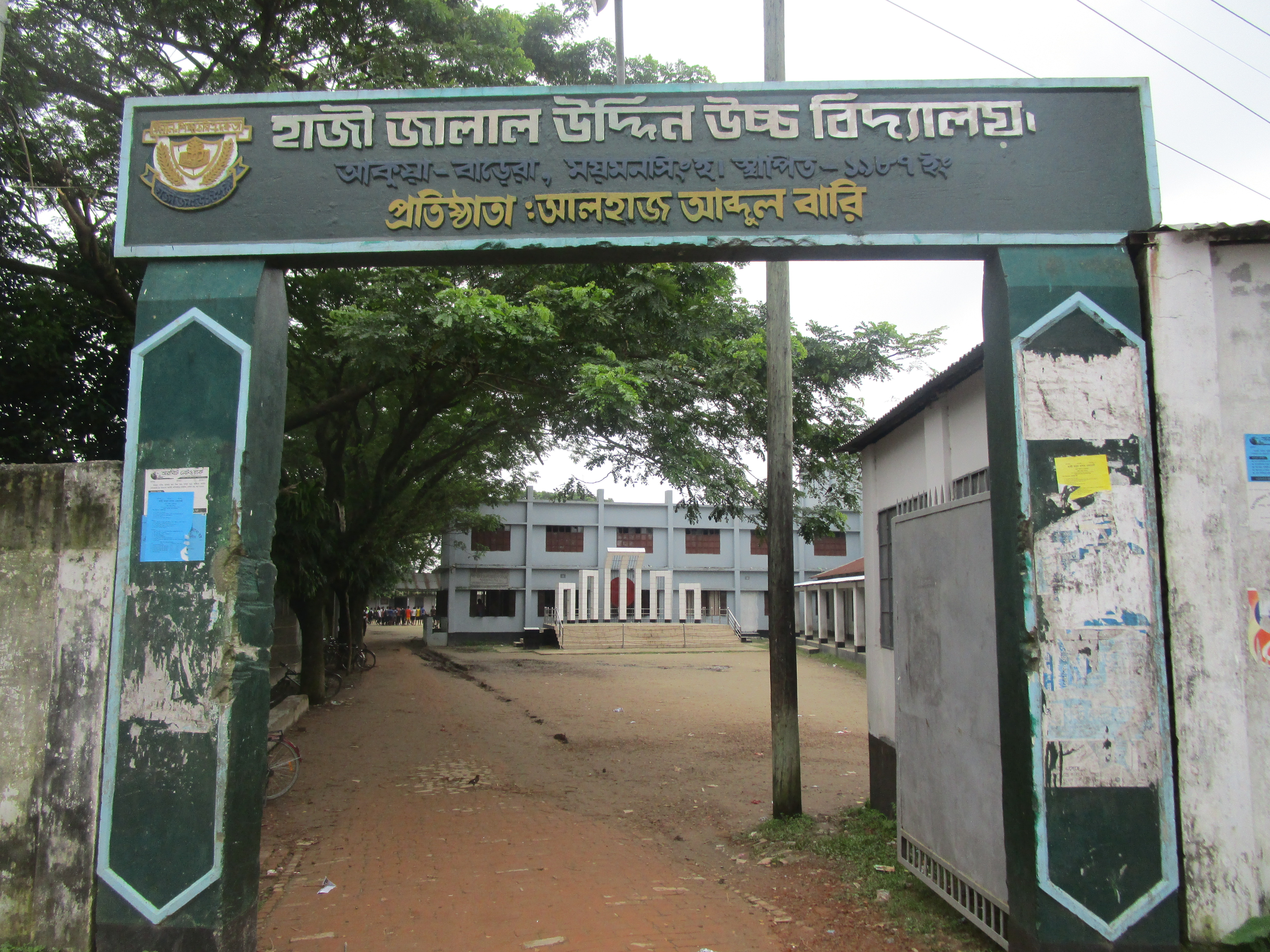 The main gate of Haji Jalaluddin High school.